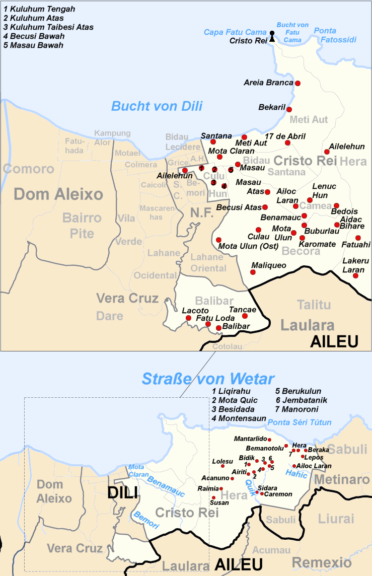 Administrative map of the Cristo Rei administrative post of East Timor